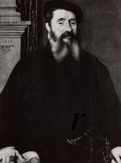 Dietrich III von Bronckhorst -Batenburg